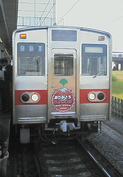 Good-bye Driving of Series 5200 -ASAKUSA LINE- of Tokyo Metropolitan Bureau of Transportation,Japan